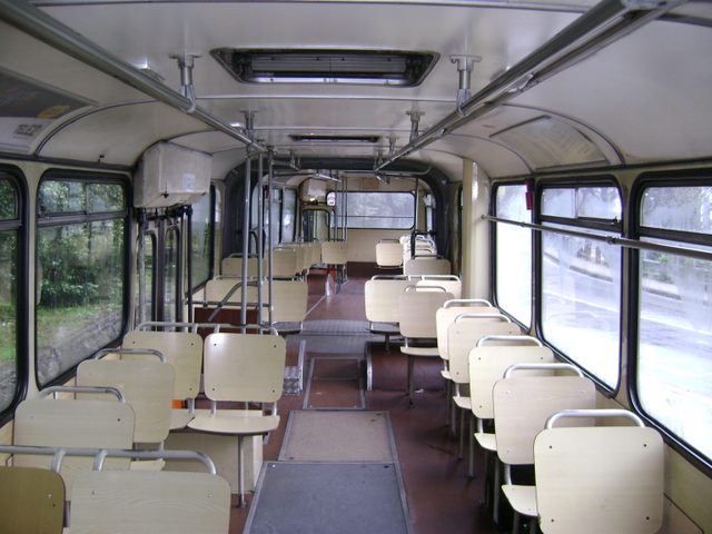 MAN SG 220 Avtomontaža bus interior in Rijeka, Croatia.